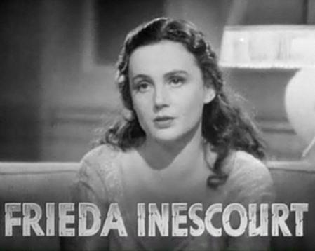 Frieda Inescort in The Garden Murder Case - trailer (cropped screenshot)